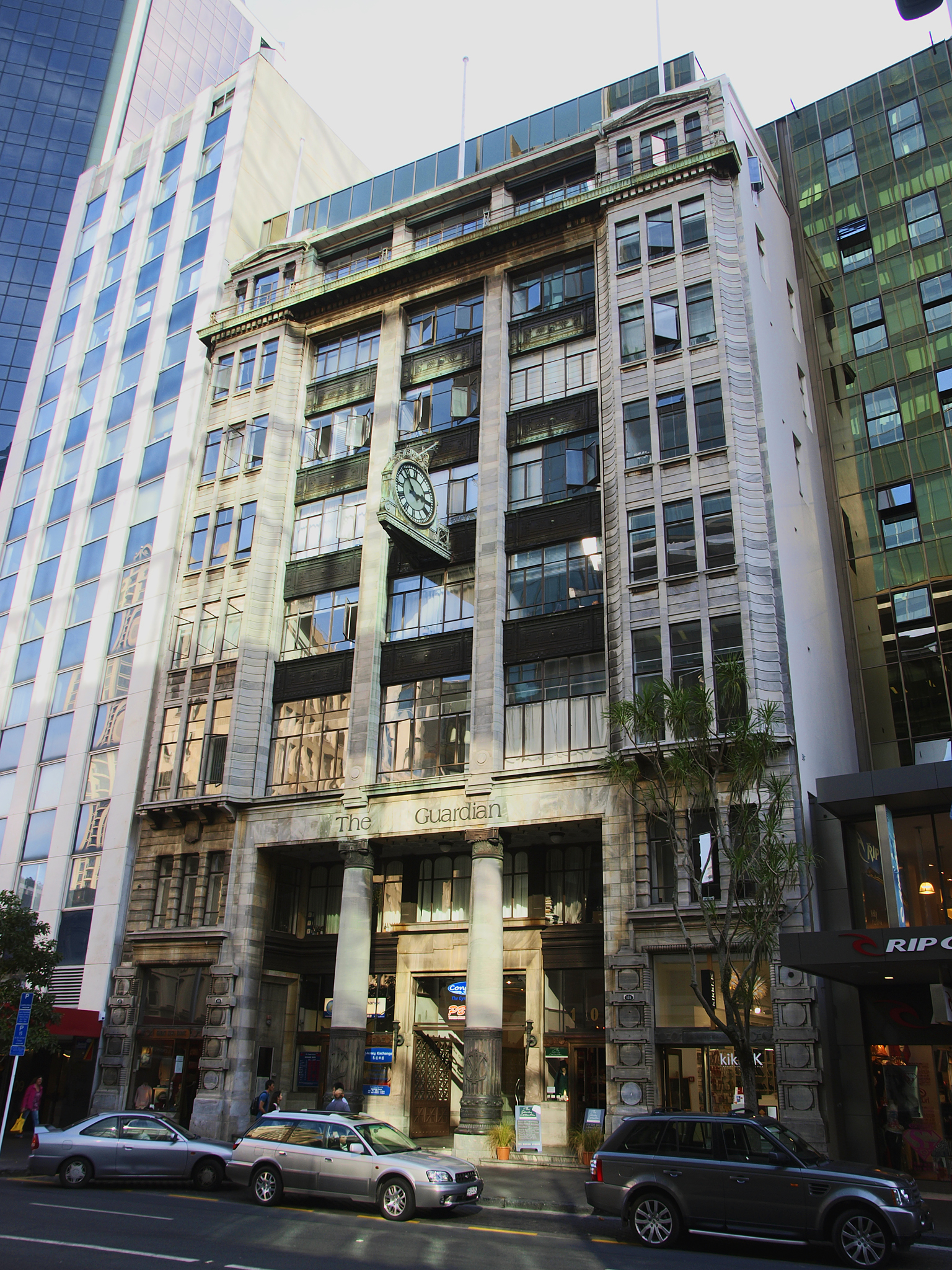 New Zealand Guardian Trust Building, 101-107 Queen Street, Auckland, New Zealand. It was built during the First World War as the headquarter of the New Zealand Insurance Company (NZI).